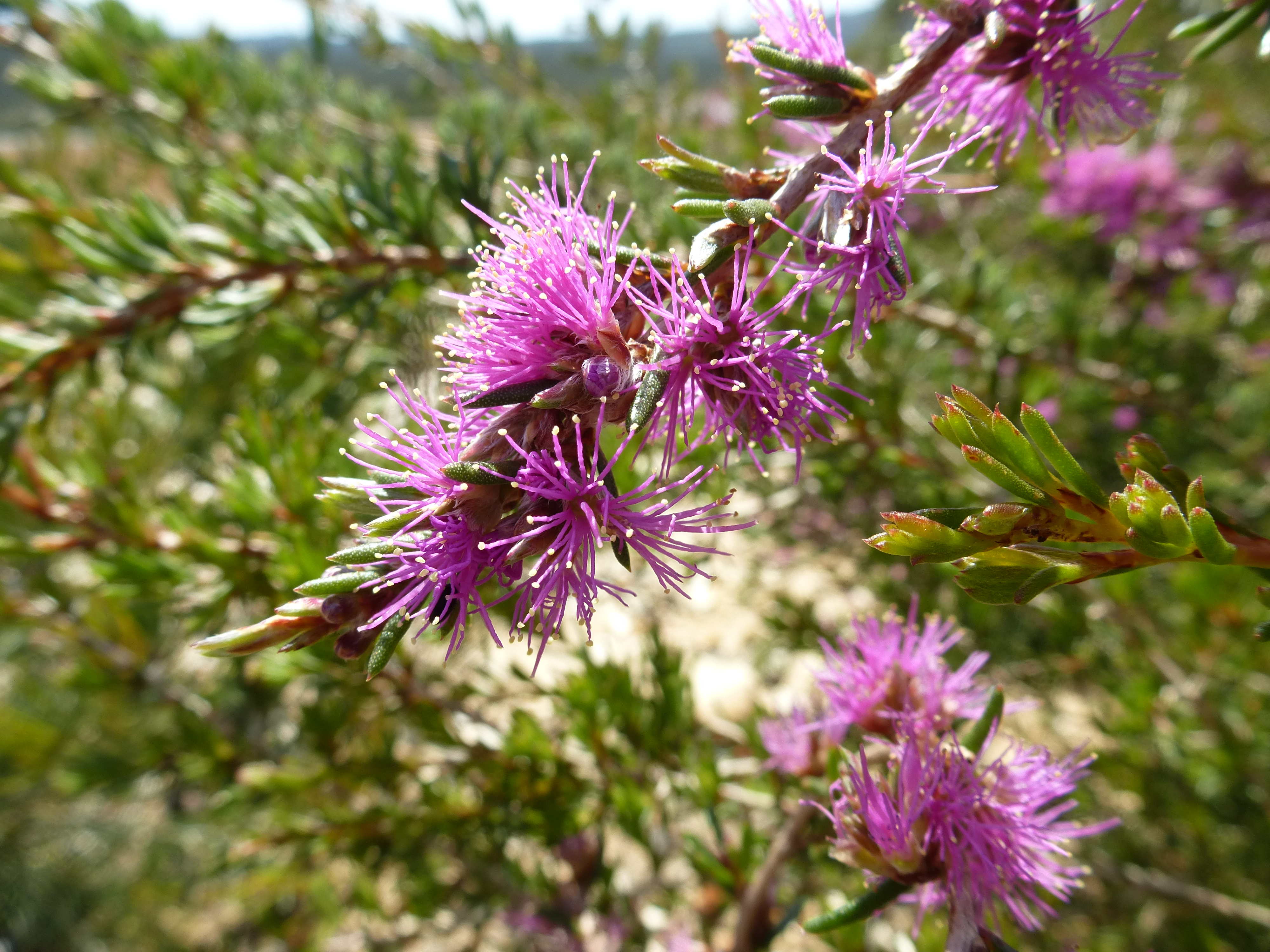 Melaleuca scabra growing at Mylies Beach near East Mount Barren